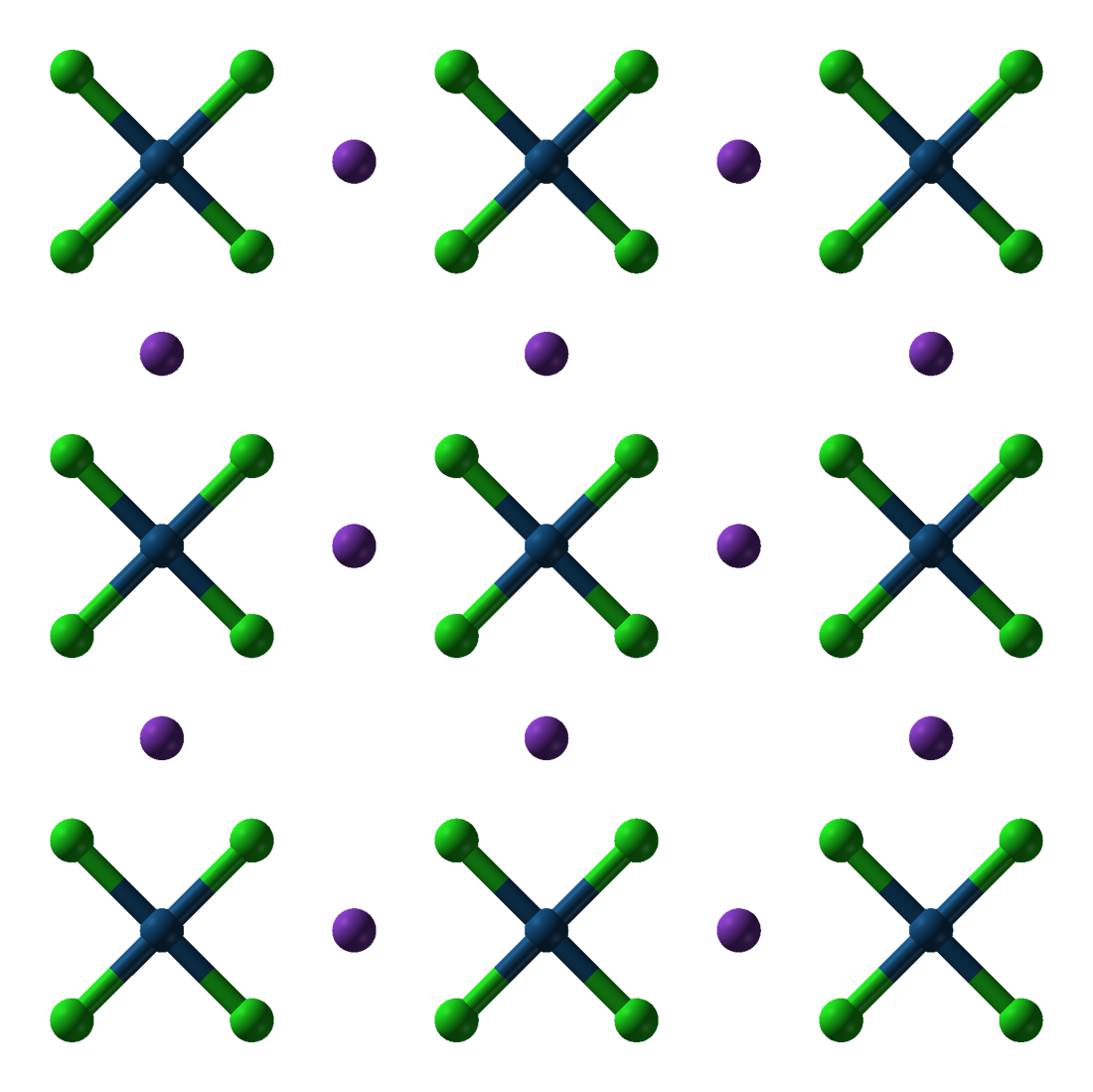 Ball-and-stick model of part of the crystal structure of potassium tetrachloroplatinate, K2[PtCl4]. X-ray diffraction data from Acta Cryst. (1990). B46, 166-174. Model constructed in CrystalMaker 8.1. Image generated in Accelrys DS Visualizer.